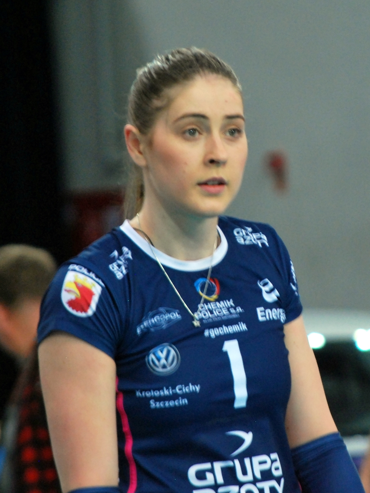 Bianka Buša, volleyball player from Serbia